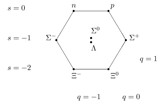 Baryons organized into an octet according to the Eightfold way